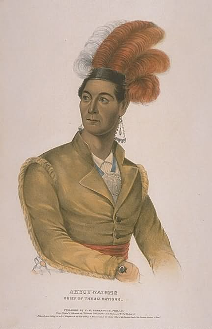 Lithograph of Ahyonwaeghs John Brant, based on an original portrait by Charles Bird King [1] This image is available from the Toronto Public LibraryThis tag does not indicate the copyright status of the attached work. A normal copyright tag is still required. See Commons:Licensing. English | français | +/−